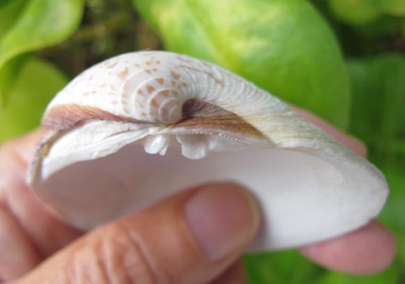 A left valve of a juvenile Mercenaria campechiensis viewed from the top to show the lunule and umbo. This valve is from beach drift in Sanibel, Lee County, Florida